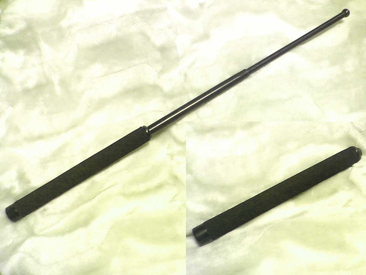 This security baton is sold to the public in Japan. See the following specification about it. material steel length shortened-lengthened 25-66 cm (0.8-2.2 ft.) thickness the handle 2.5 cm (1 in.) weight 0.5 kg (1.1 lb.)